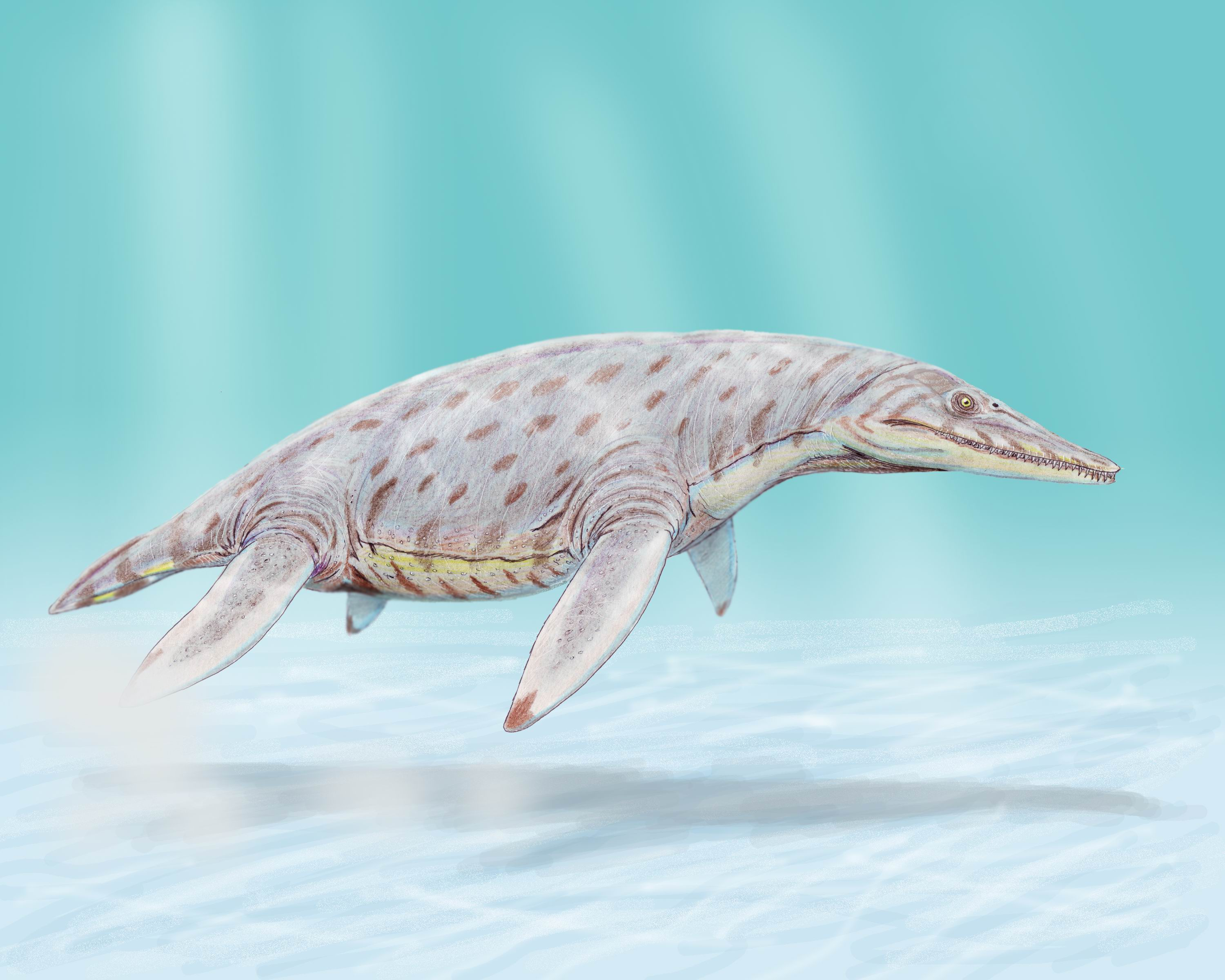 Polyptychodon hudsoni